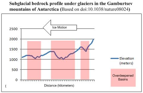 Overdeepened basins in the Gamburtsev mountains in Antarctica. The data from which this plot was made is found in cite doi|10.1038/nature08024